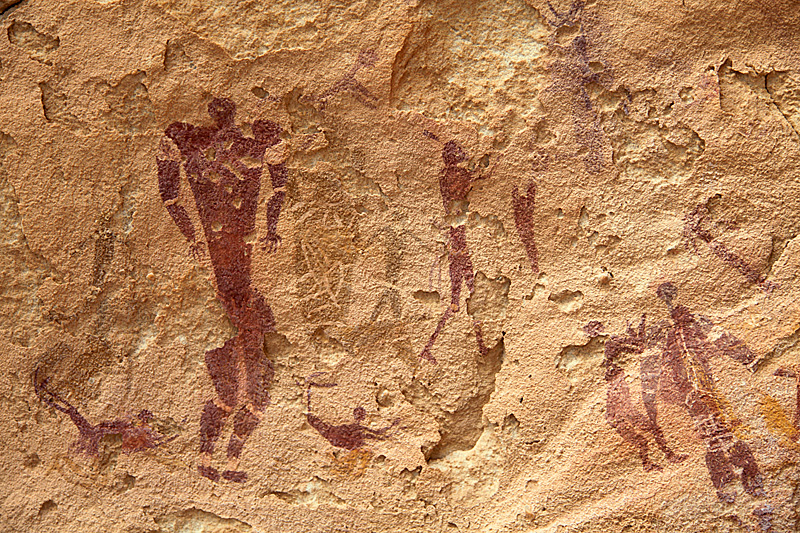 Painting of men in the Cave of the Swimmers, Wadi Sura, Gilf Kebir, Western Desert, Egypt